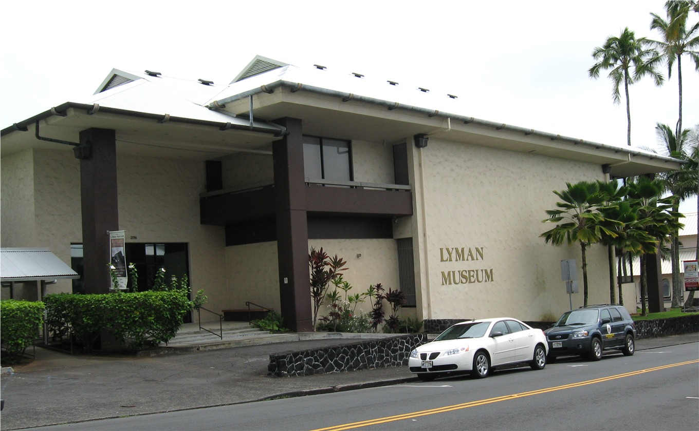 A modern building bult in the 1960s for the Lyman museum, adjacent to the historic 1838 missionary house, in Hilo Hawaii